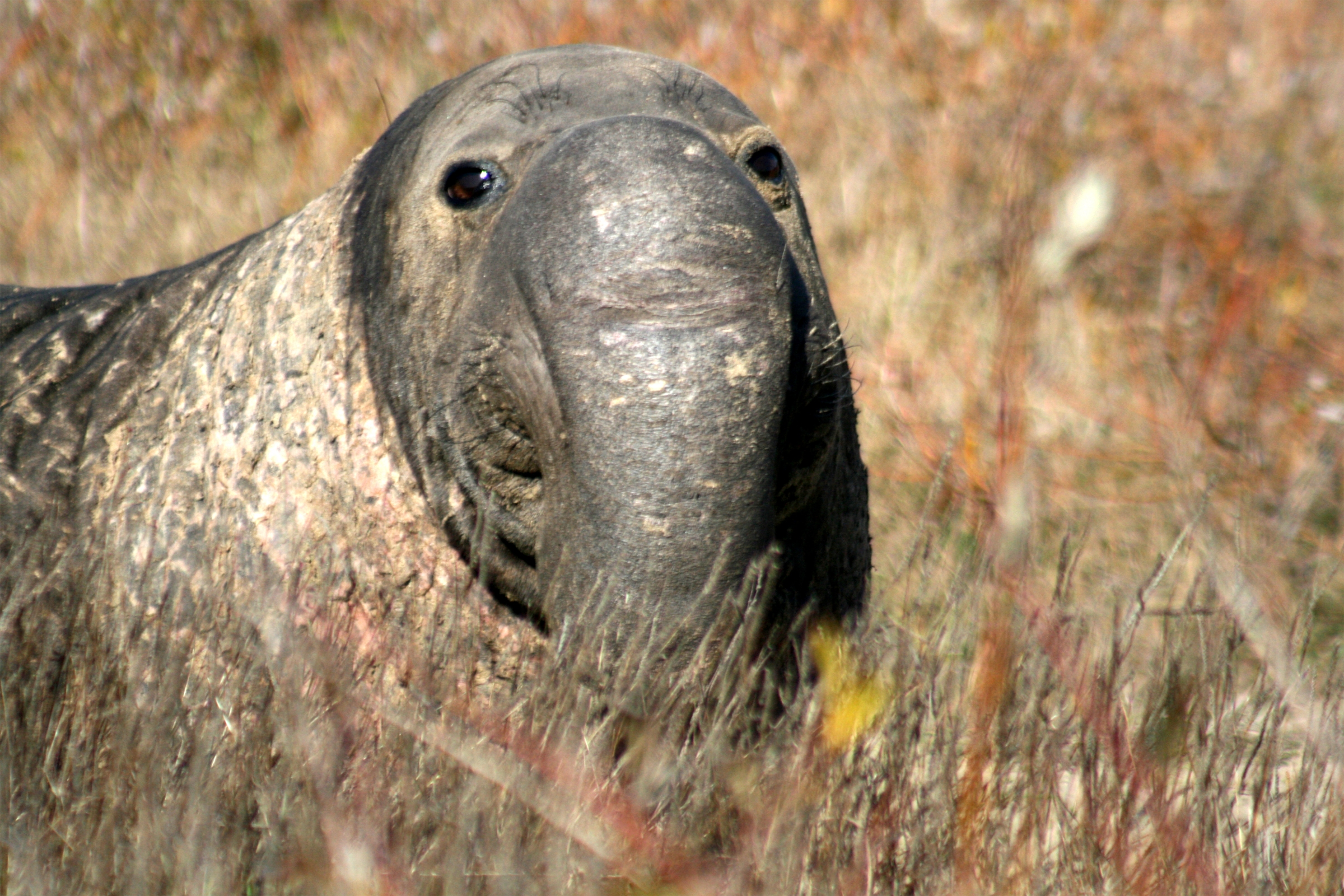 Male Northern Elephant Seal Año Nuevo State Park, California